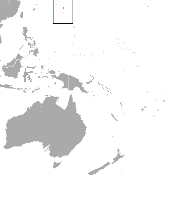 Bonin Flying Fox (Pteropus pselaphon) range